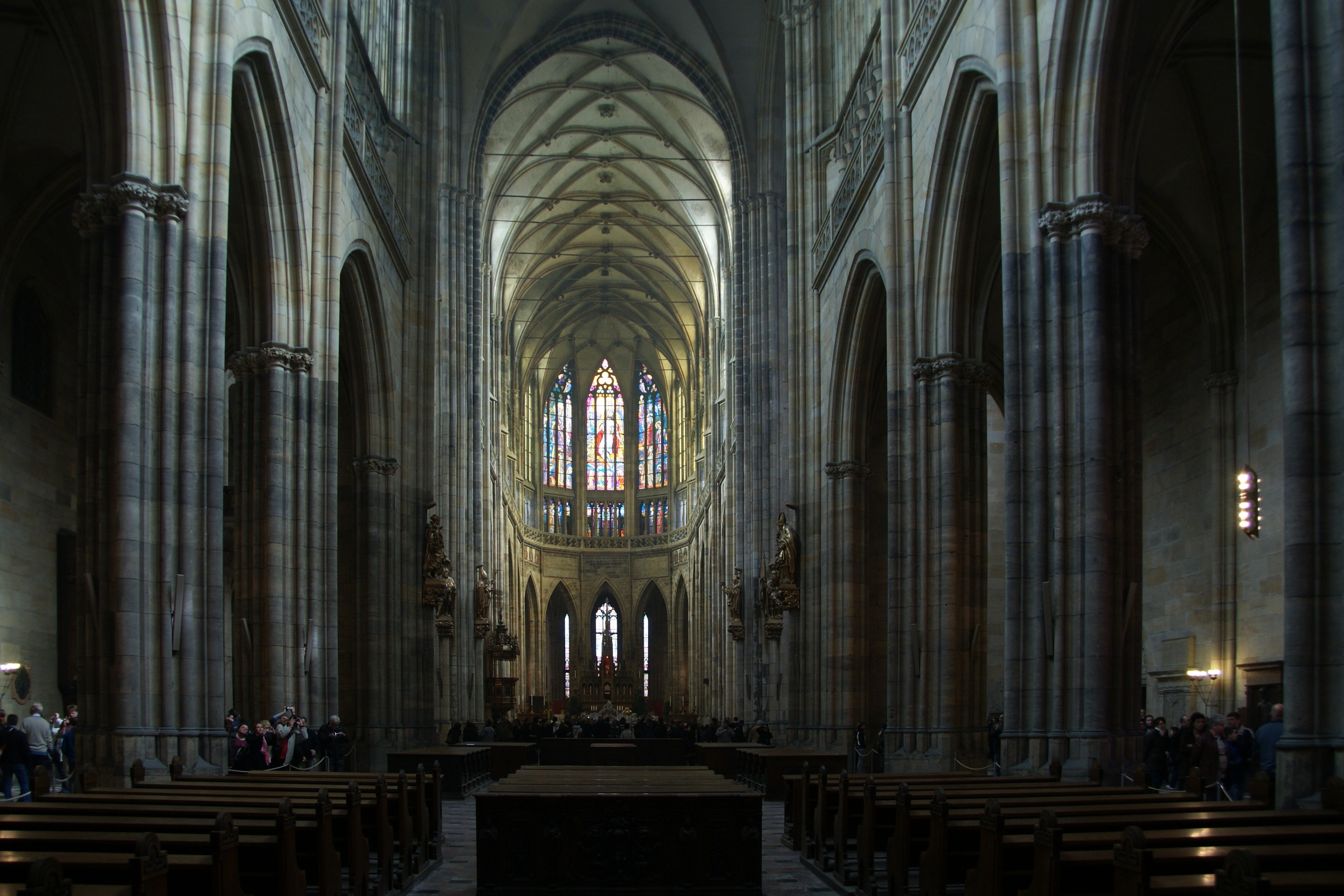 St. Vitus Cathedral (interior), Prague